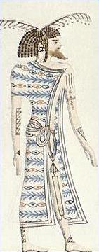 First Picture of the Berber, found Sethi's 1